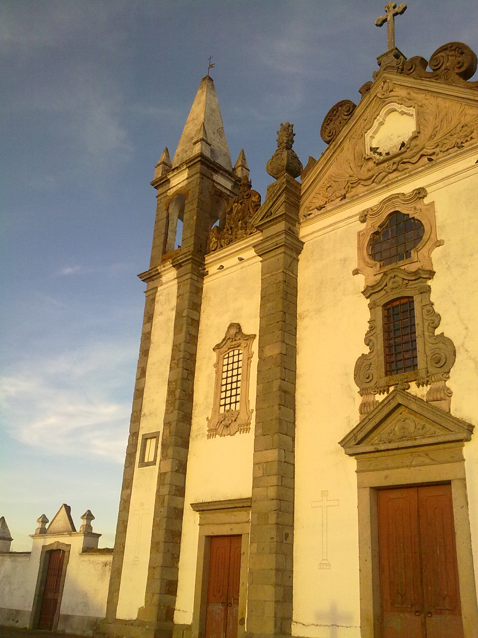 Church of our savior, Alcáçovas, Portugal.